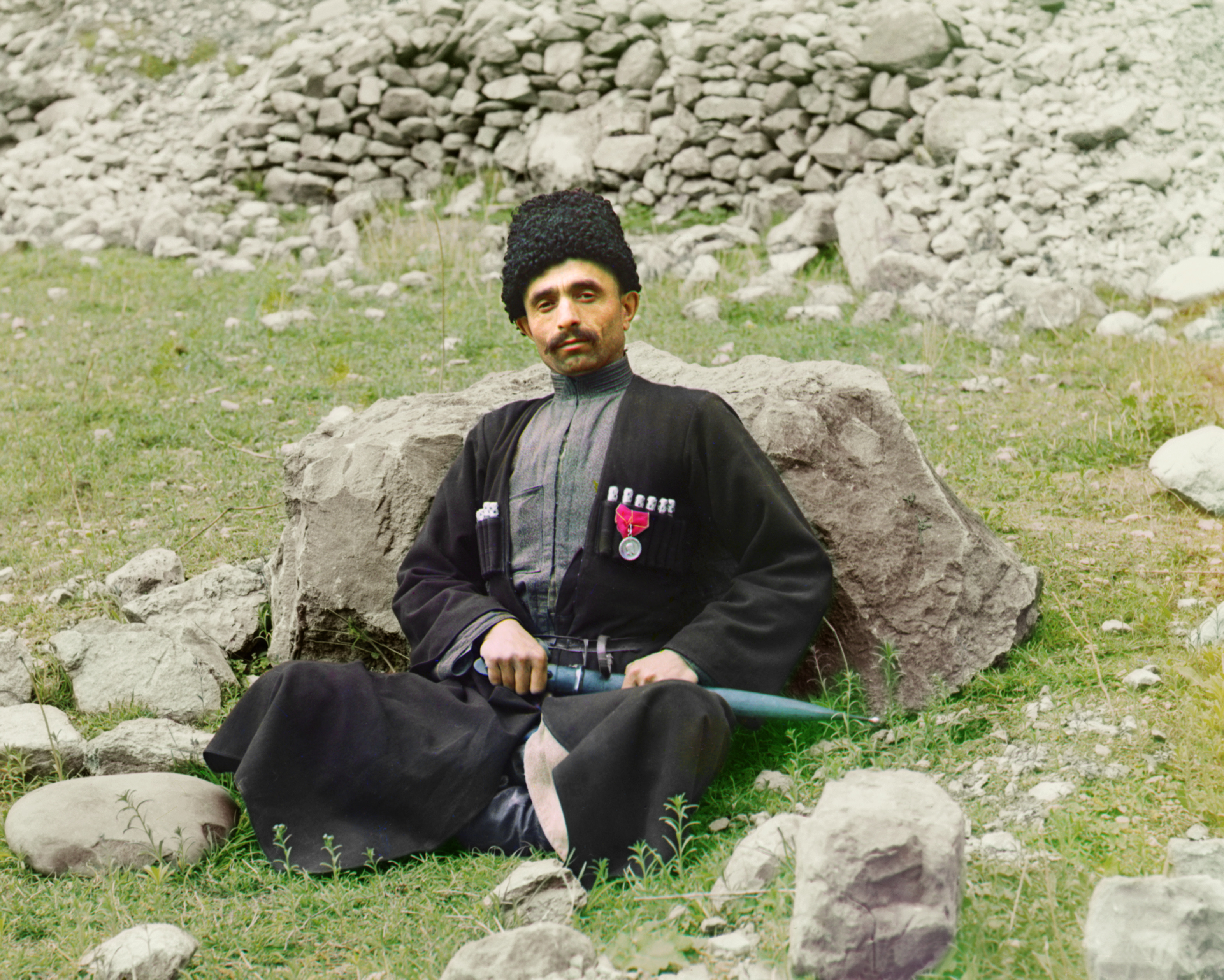 Muslim man decorated with military medal, wearing traditional dress and headgear, with a sheathed dagger at his side. Dagestan.